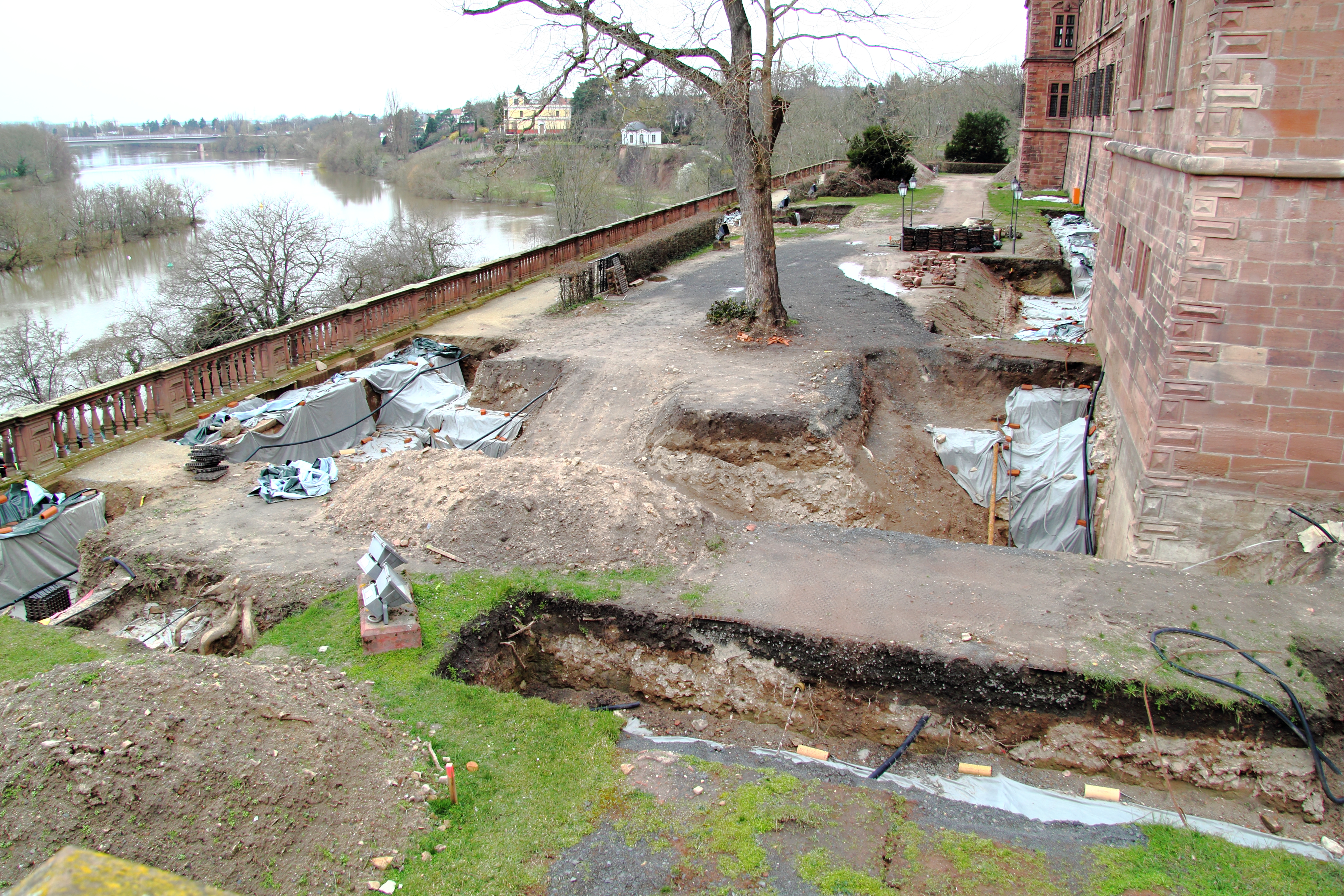 Schloss Johannisburg, Aschaffenburg / Germany: Archaeological research in the old garden area on the palace terrace in 2020